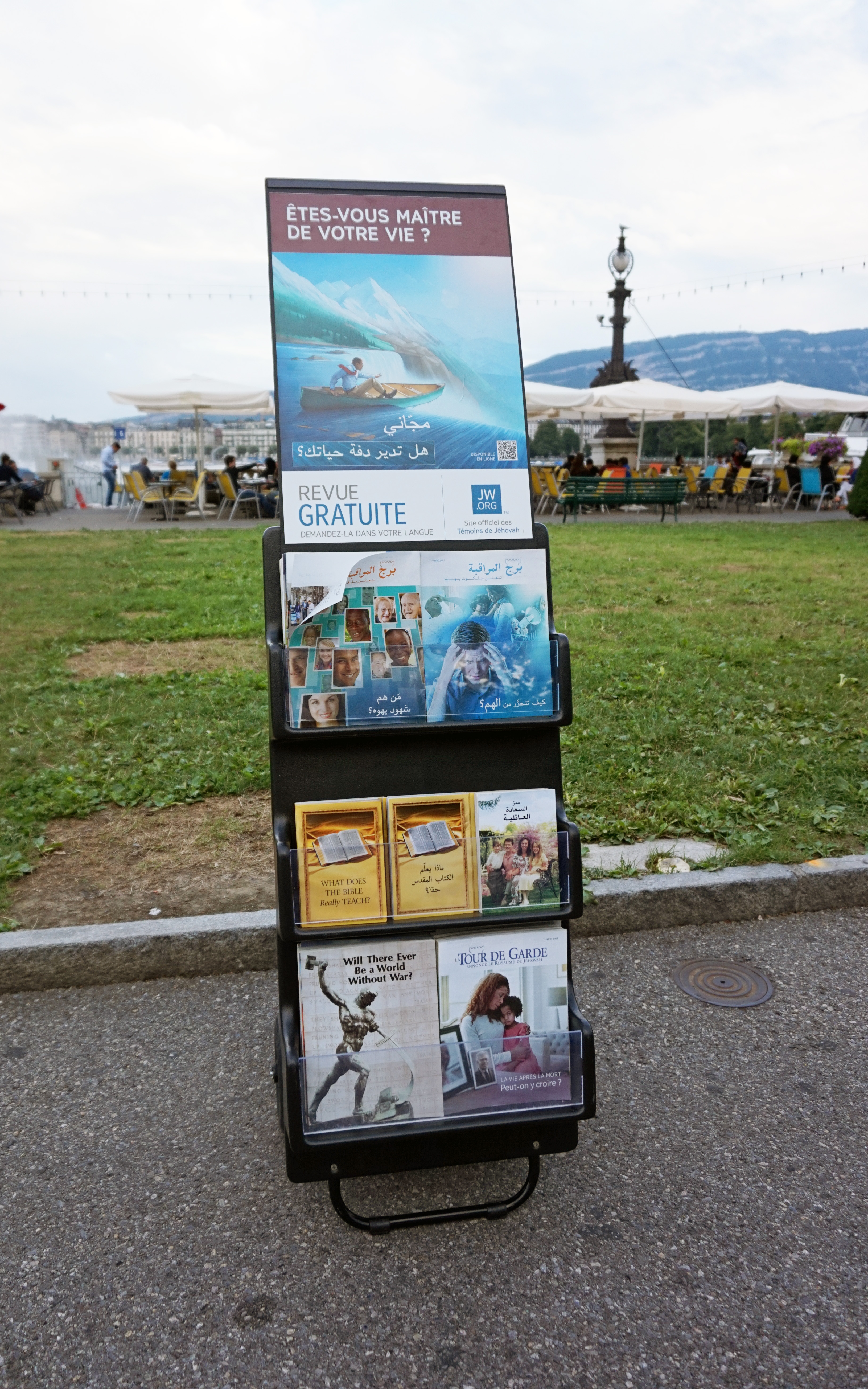 Jehovah's Witnesses literature in Geneva, Switzerland.This photograph was taken with a Sony ILCE-5000